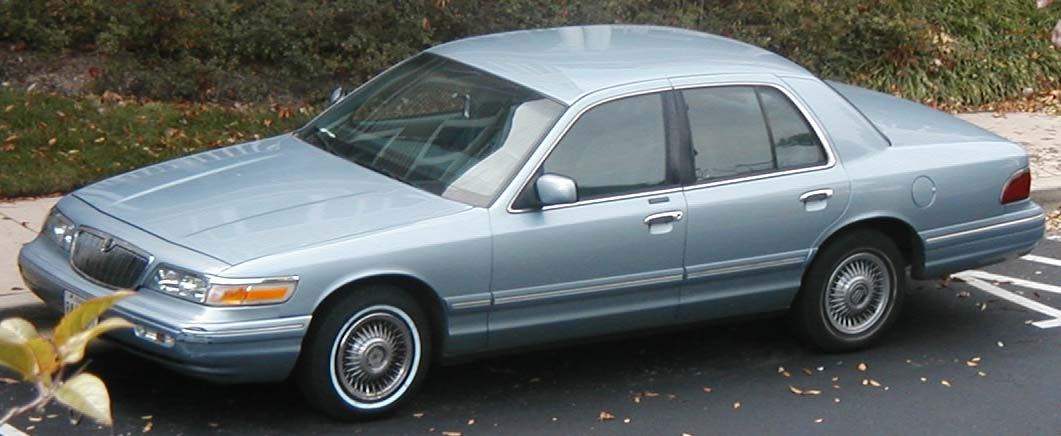 1995-1997 Mercury Grand Marquis photographed in USA.